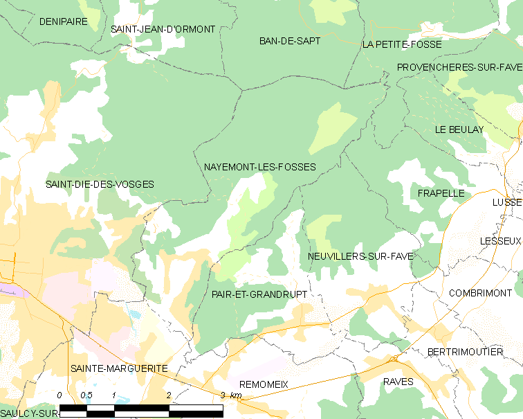 Map of French municipality Nayemont-les-Fosses